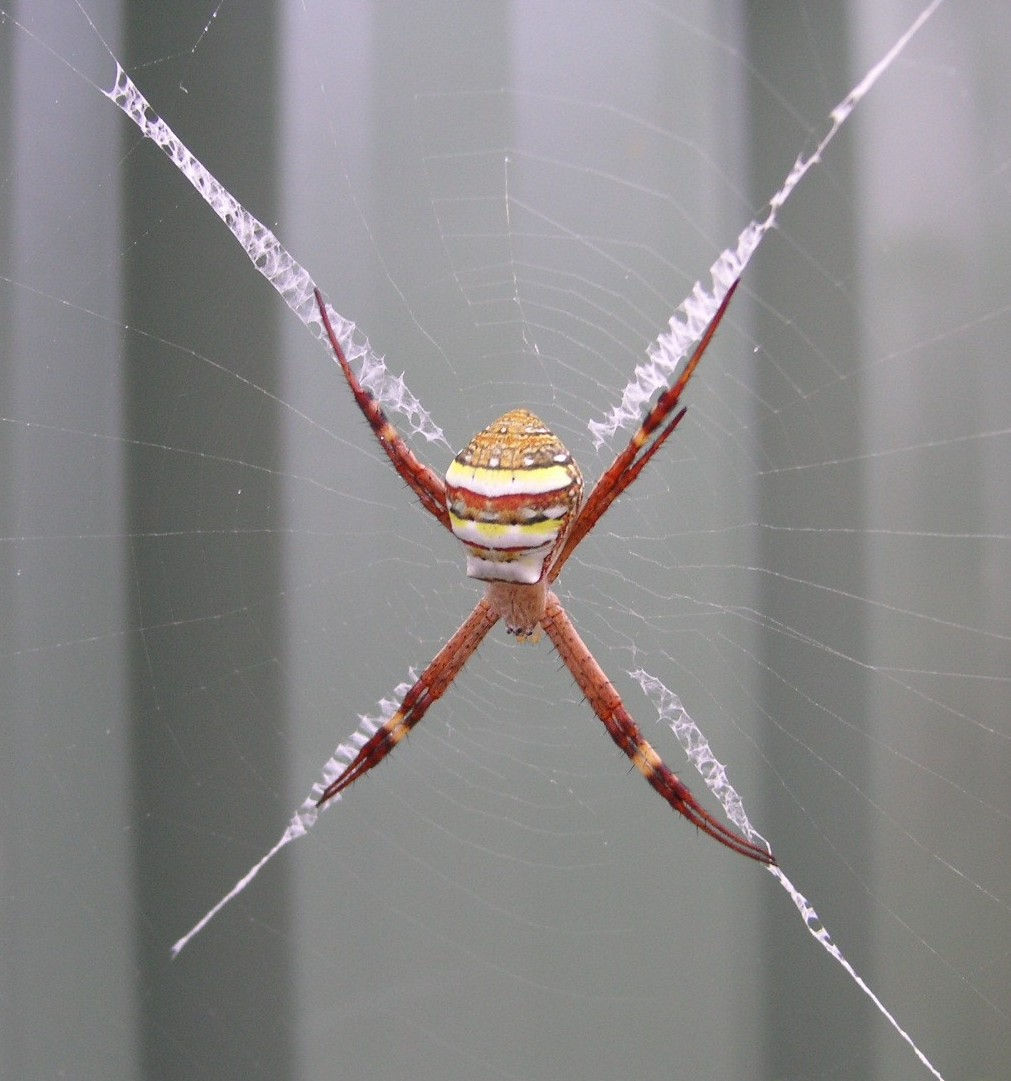 St. Andrew's Cross spider (very probably Argiope keyserlingi) photographed in coastal NSW, Australia